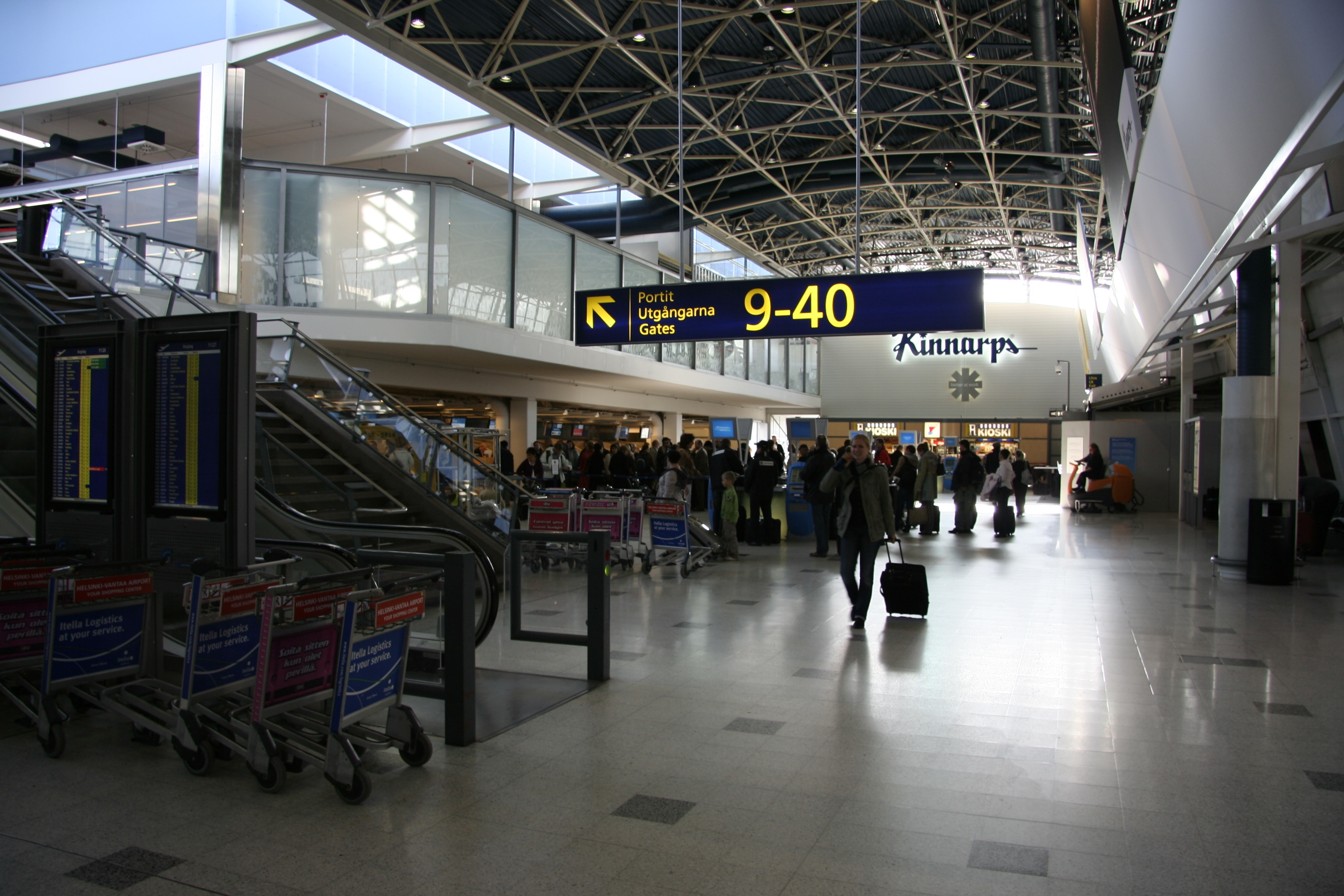 Interior of the terminal 1 of Helsinki-Vantaa Airport